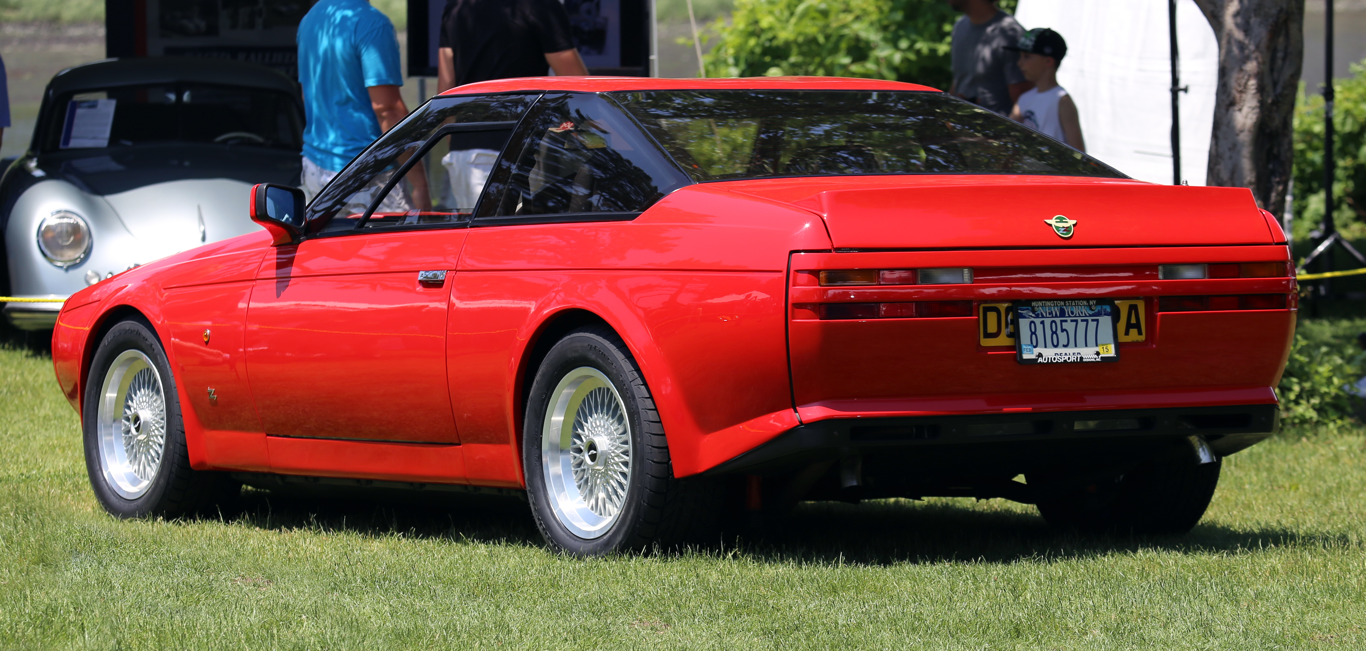 1987 Aston Martin V8 Vantage Zagato at the 2013 Greenwich Concours d'Elegance.